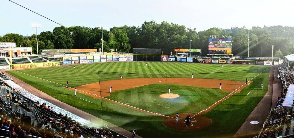 FNB Field from behind home plate